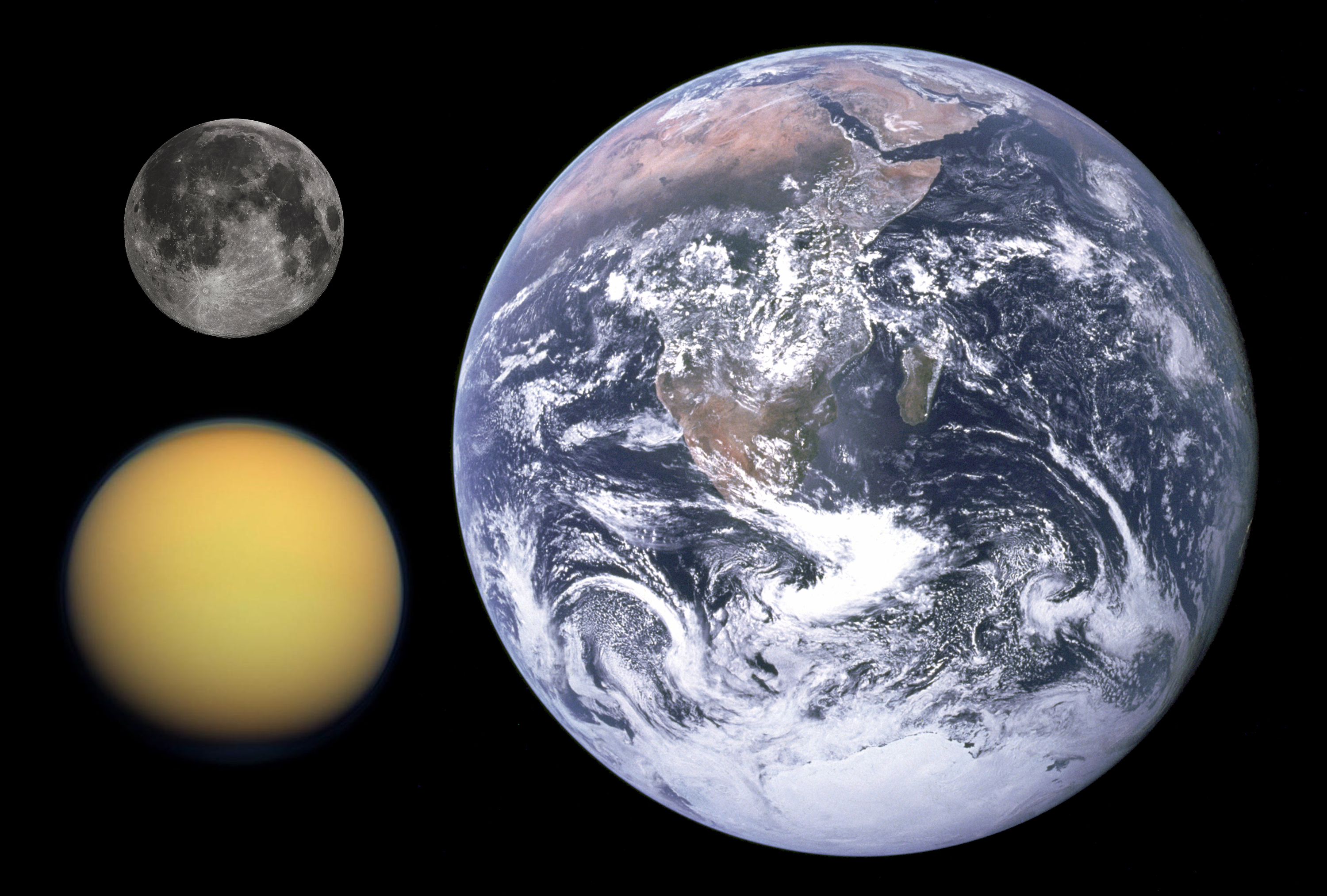 Diameter comparison of Titan, Moon, and Earth. Scale: Approximately 29km per pixel.